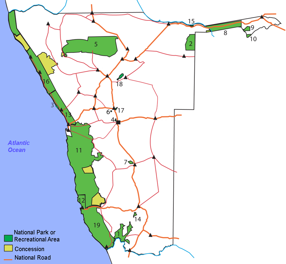 map of National Parks and Recreational Areas in Namibia (English) 01. Ai Ais Hot Springs 4321.97 sqm 02. Khaudom National Park 3657.91 sqm 03. Cape Cross Seal Reserve 22.88 sqm 04. Daan Viljoen 39.09 sqm 05. Etosha National Park 22151.40 sqm 06. Gross Barmen Hot Springs 0.93 sqm 07. Hardap Recreation Resort 239.97 sqm 08. Bwabwata National Park 6333.07 sqm 09. Mamili National Park 343.17 sqm 10. Mudumu National Park 726.25 sqm 11. Namib Naukluft National Park 50951.74 sqm 12. National Diamond Coast Recreation Area 58.36 sqm 13. National West Coast Recreation Area 7445.95 sqm 14. Naute Recreation Resort 220.30 sqm 15. Popa Falls 0.15 sqm 16. Skeleton Coast Park 17163.70 sqm 17. Von Bach Recreation Resort 41.24 sqm 18. Waterberg Plateau Park 397.95 sqm 19. Sperrgebiet National Park 21751.86 sqm